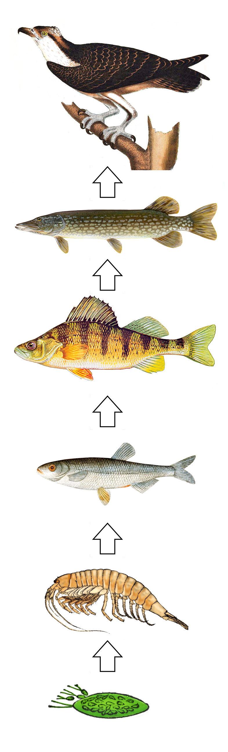 Food chain: Chlorogonium euchlorum, Anaspides tasmaniae, Alburnus alburnus, Perca Flavescens, Esox lucius1, Pandion haliaetus